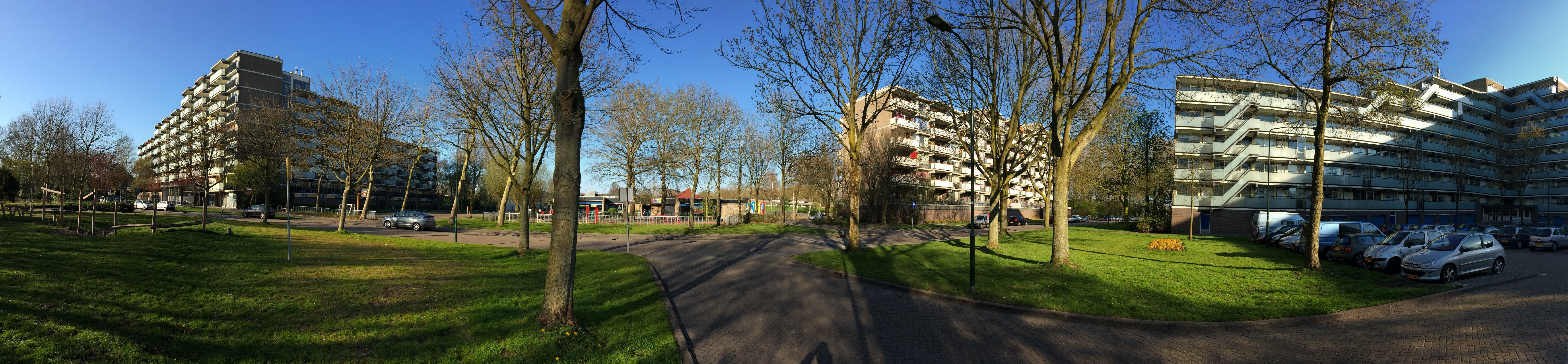 "De Tol" is a small neighbourhood in Leidschendam-Voorburg (Netherlands).